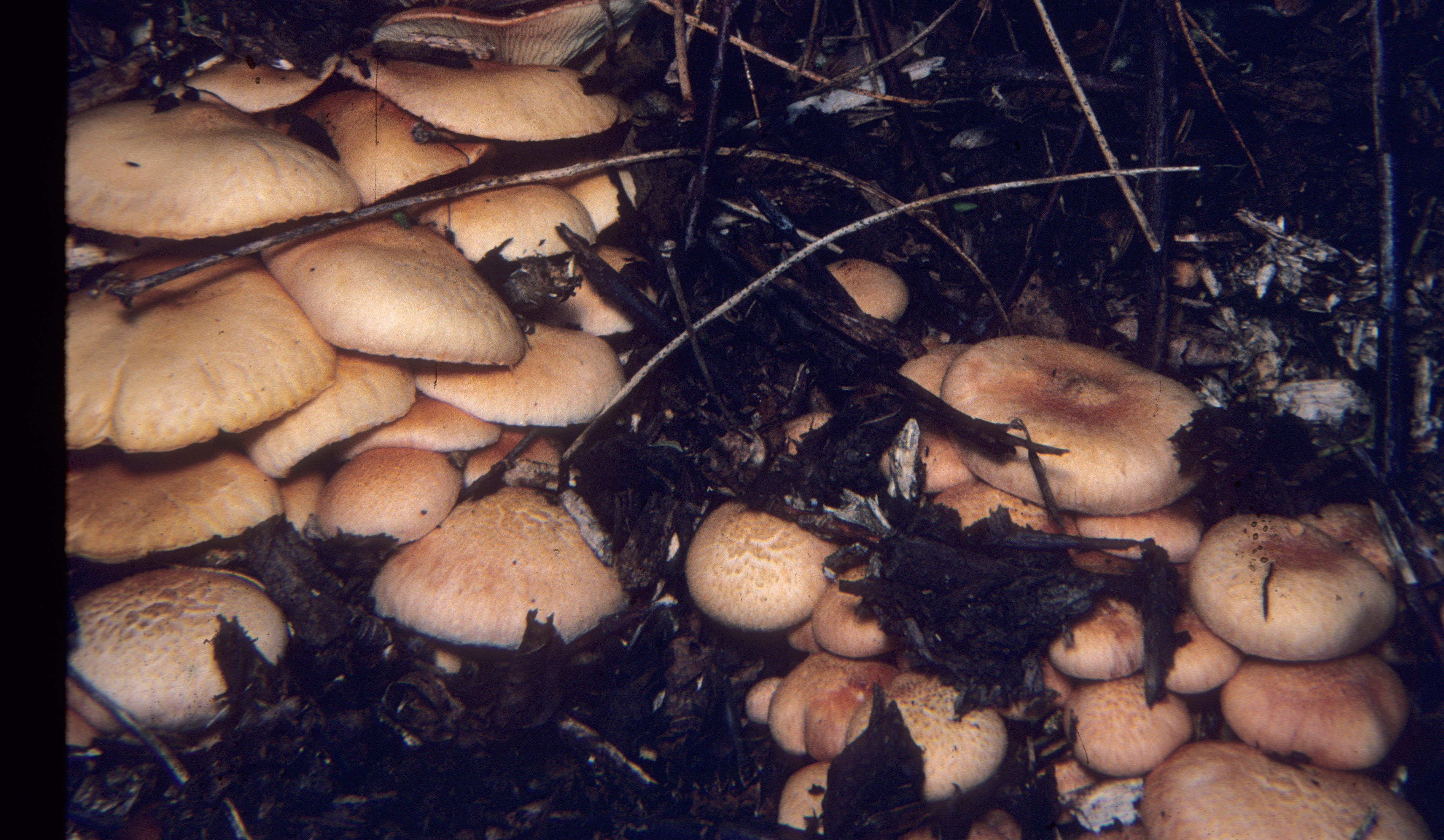 Gymnopilus aeruginosus growing from a pile of wood mulch in New Waterford, Ohio, USA